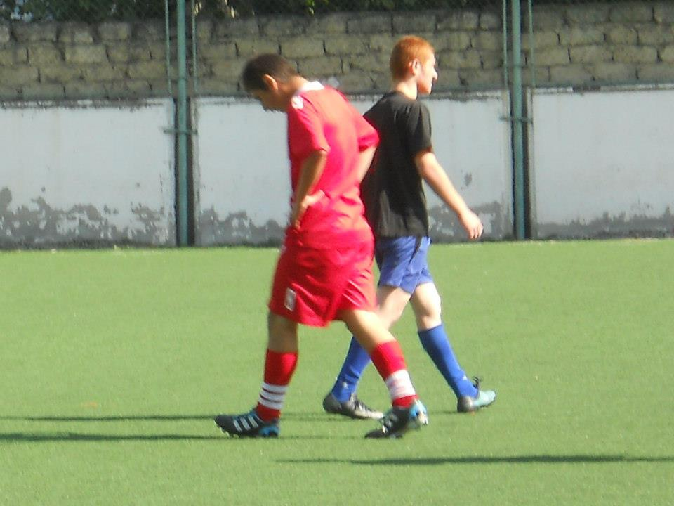 "El Caco" For F.C 35